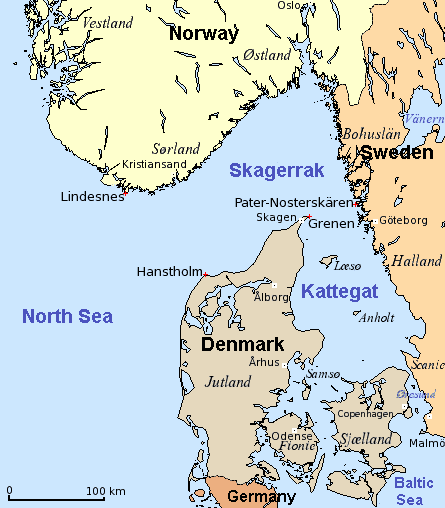 Map of Skagerrak and Kattegat — straits/bays of the North Sea, along Denmark, Norway, and Sweden. The Baltic Sea drains into the Atlantic Ocean through them. Credits Scandinavian place names set by Hallvard Straume. (Mercator-projection, data from 2005.)